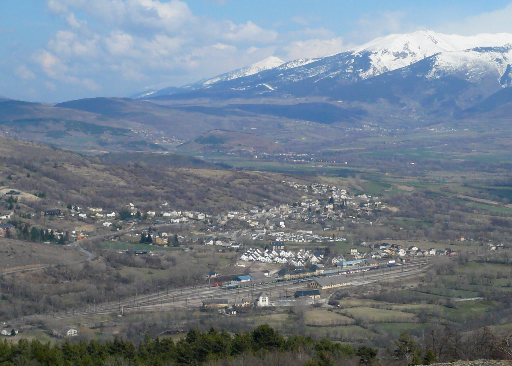 View from Guils de Cerdanya, showing Enveig, la Tor de Querol international railway station and Cambra d'Ase mountain.